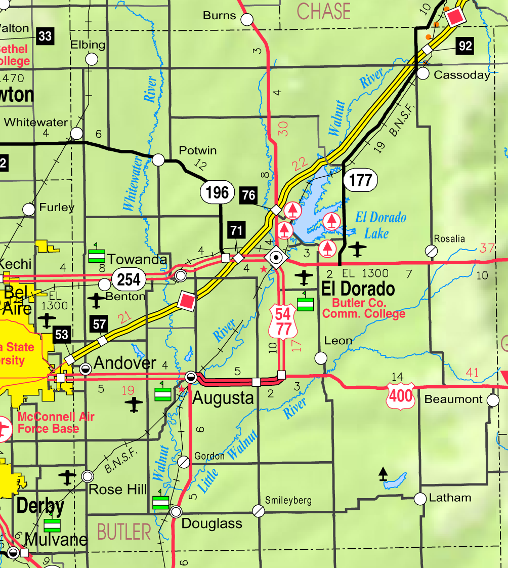 This map of Butler County, Kansas, USA, is copied at a resolution of 300 pixels/inch from the original PDF file.